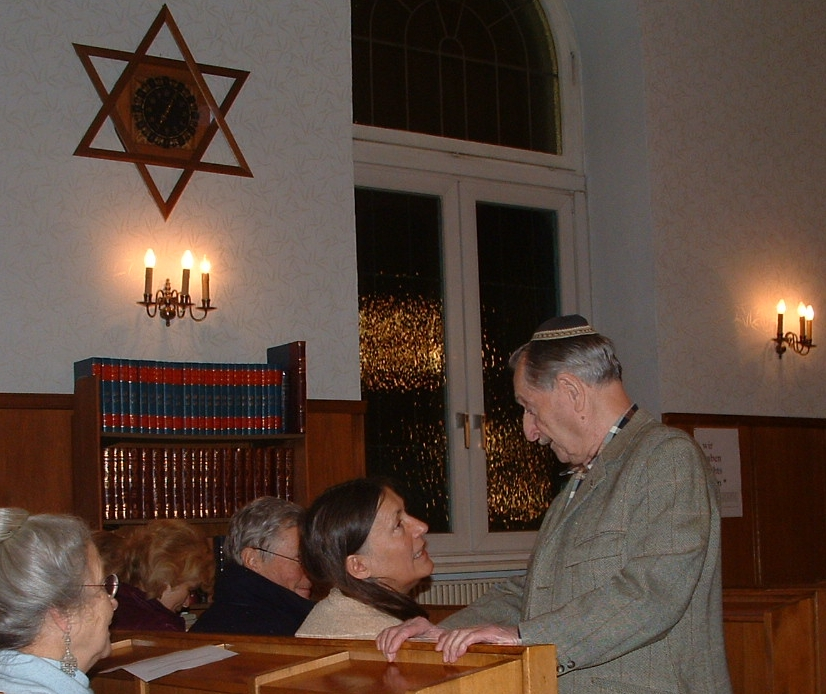 Marko Feingold in the Salzburg synagogue Photograph by Gakuro 2005